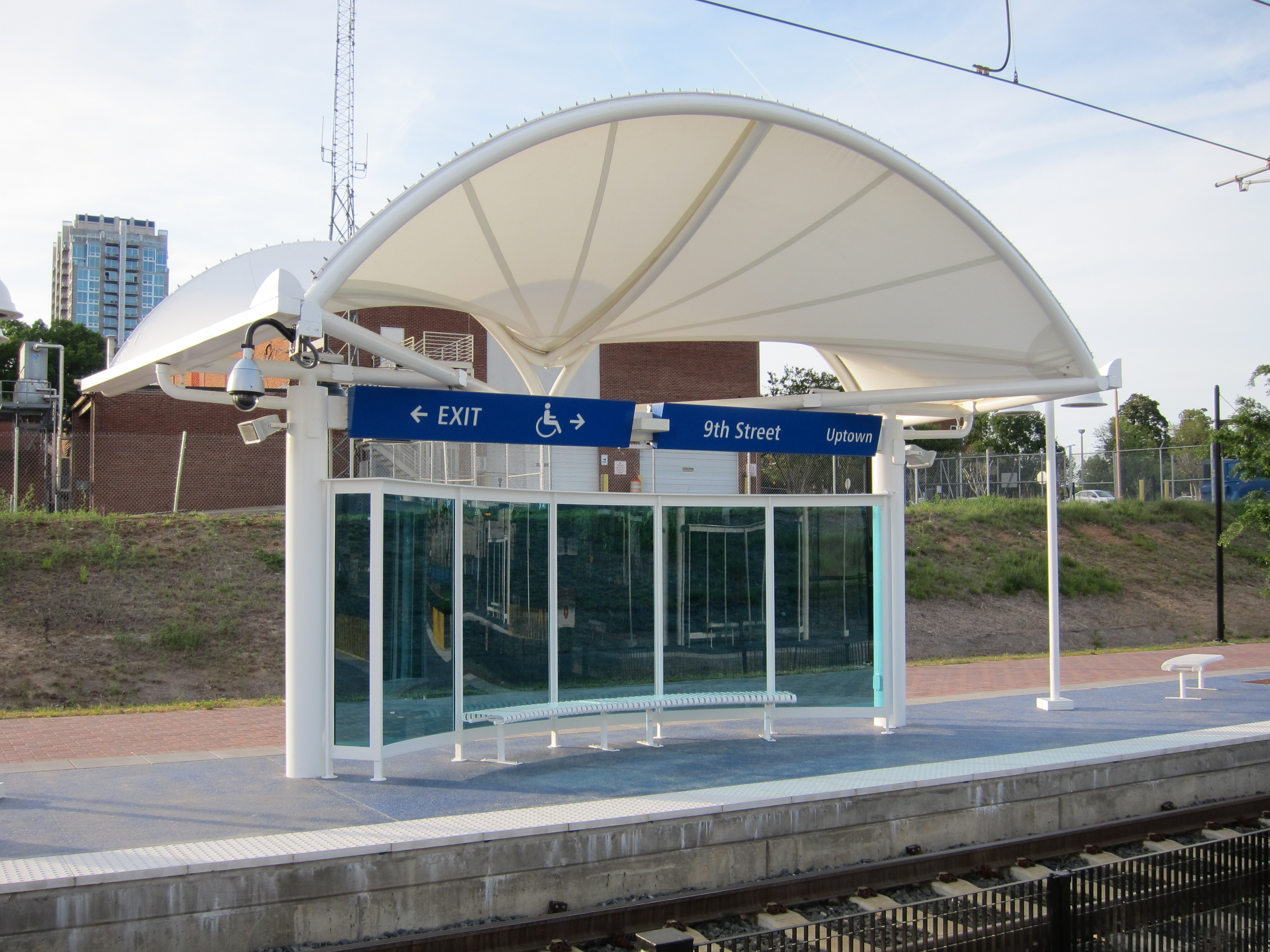 Anna Valentina Murch and Douglas Hollis designed the unique white canopy with curved blue glass windscreen, inspired by Charlotte’s historic textile industry.